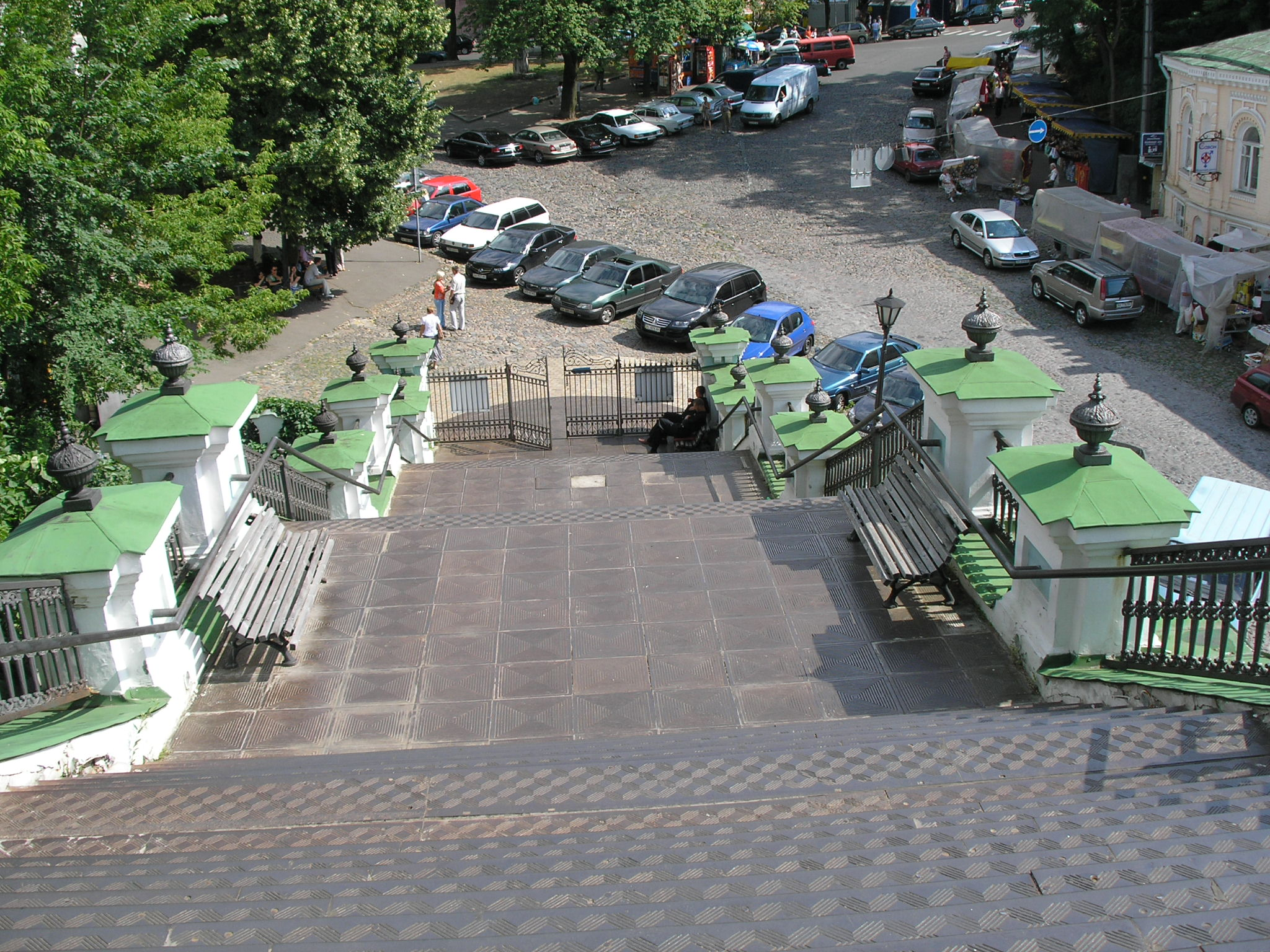 The steps leading to the St. Andrew's Church in Kiev, Ukraine.